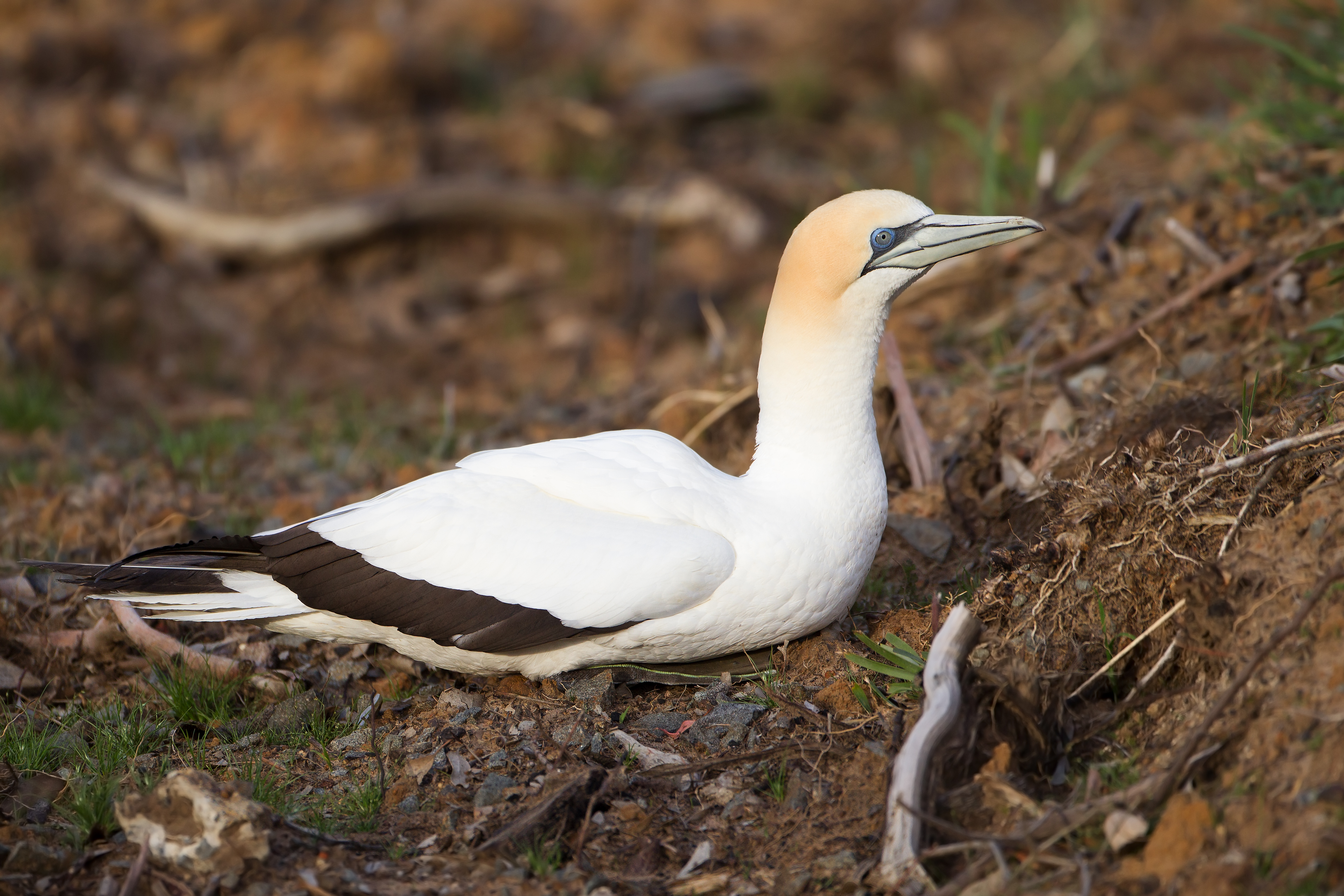 Australasian Gannet (Morus serrator), Dunalley, Tasmania, Australia